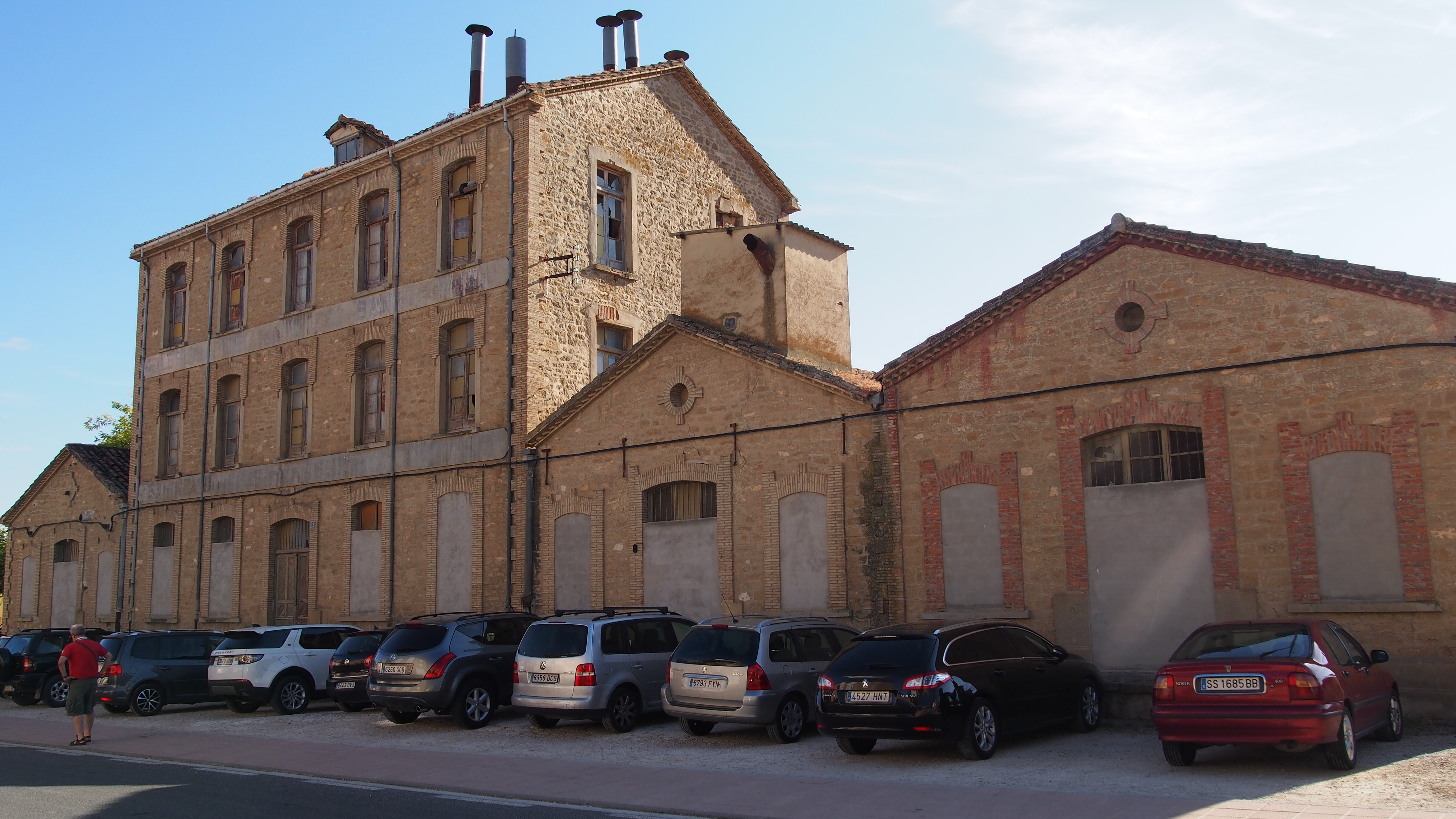 Flour mill in Allo, Navarre. Facade.